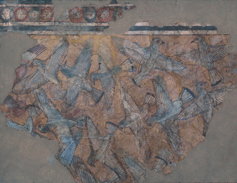 Ceiling painting, palace of Amenhotep III, Malqata